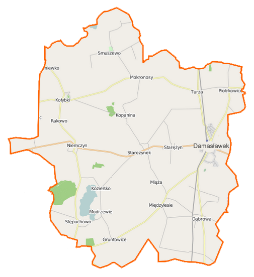 Map of Gmina Damasławek, Poland This map of Damasławek (gmina) was created from OpenStreetMap project data, collected by the community. This map may be incomplete, and may contain errors. Don't rely solely on it for navigation.